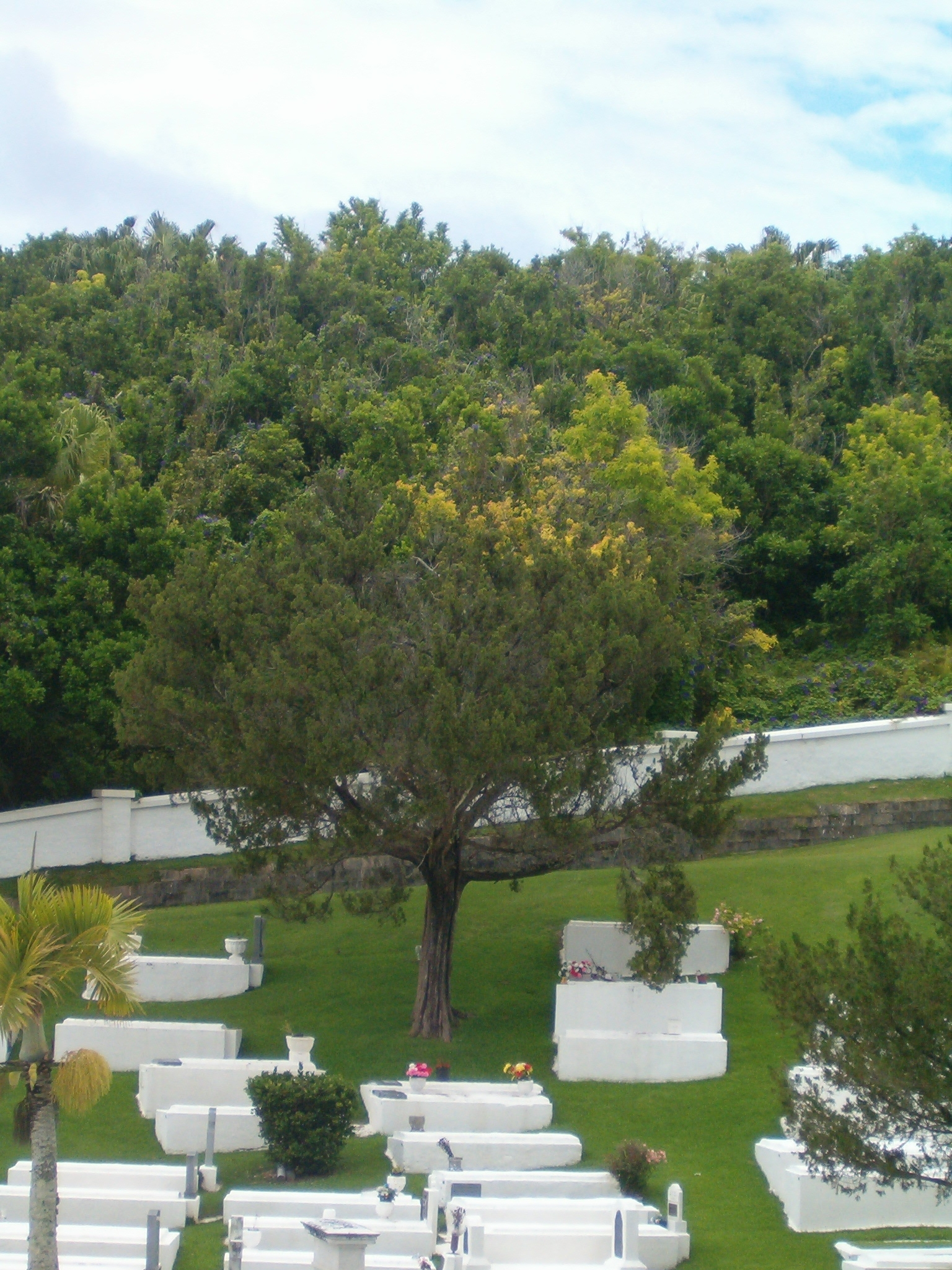 A Bermuda Juniper Juniperus bermudiana in the graveyard of St. Mark's Church, Bermuda. Such managed land areas are the only places where the endemic species, driven to the brink of extinction by introduced pests, and now unable to compete with invasive flora, maintains a foothold in Bermuda. Source Uploaded by author Aodhdubh 03:47, 7 December 2006 (UTC)